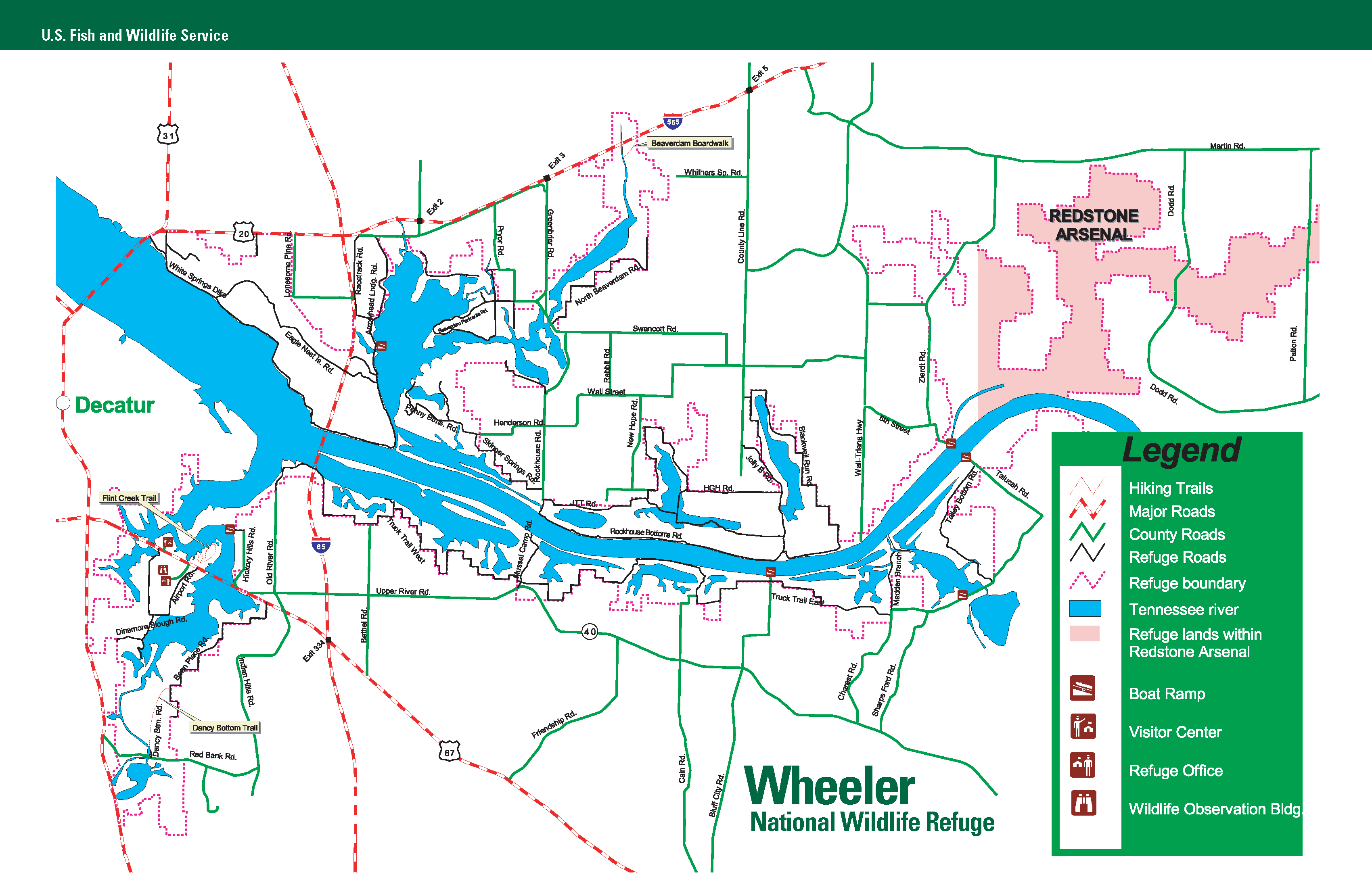 Map of Wheeler National Wildlife Refuge, Alabama